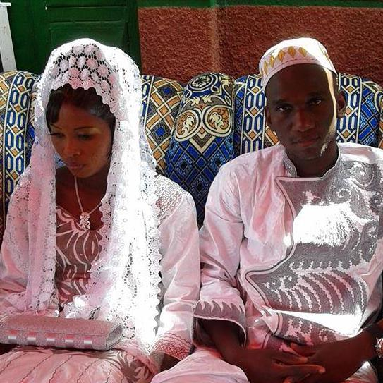 This is an image of Cultural Fashion or Adornment from Côte d'Ivoire